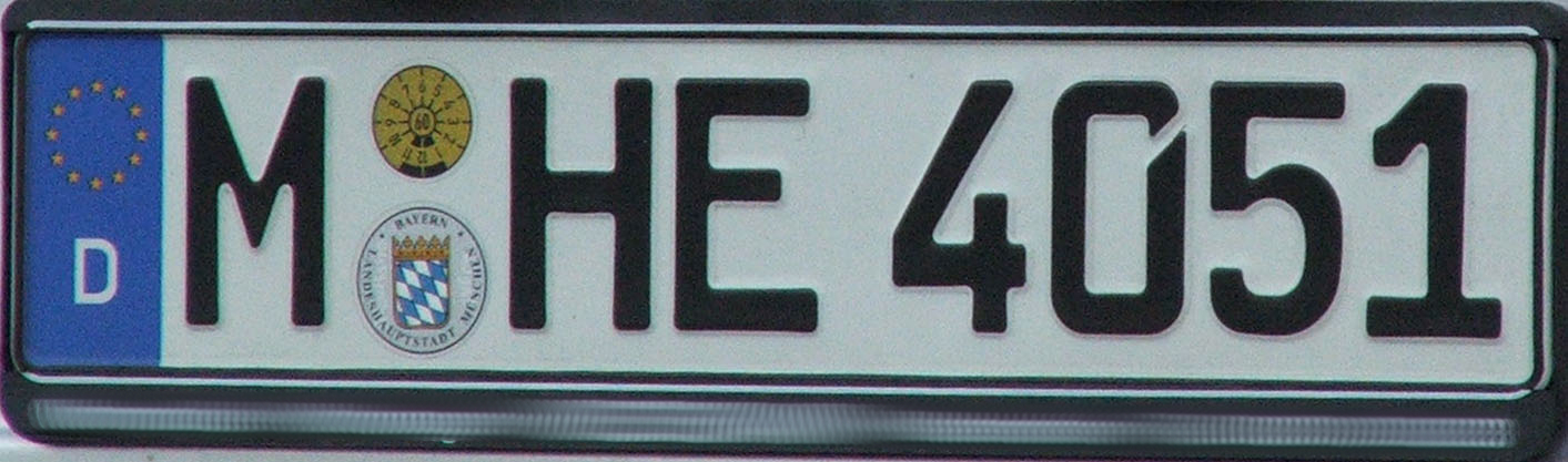 German registration plate as seen in 2007. M - stands for the city of Munich or Munich County (Landkreis). In this case, it is a vehicle registered by the City of Munich because of two letters behind "M-".